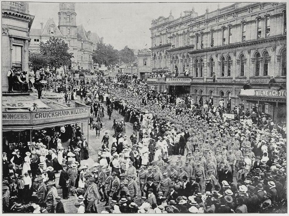 The Sixth New Zealand Contingent marching down Wellesley Street. Auckland, to embark for South Africa for the Second Boer War.